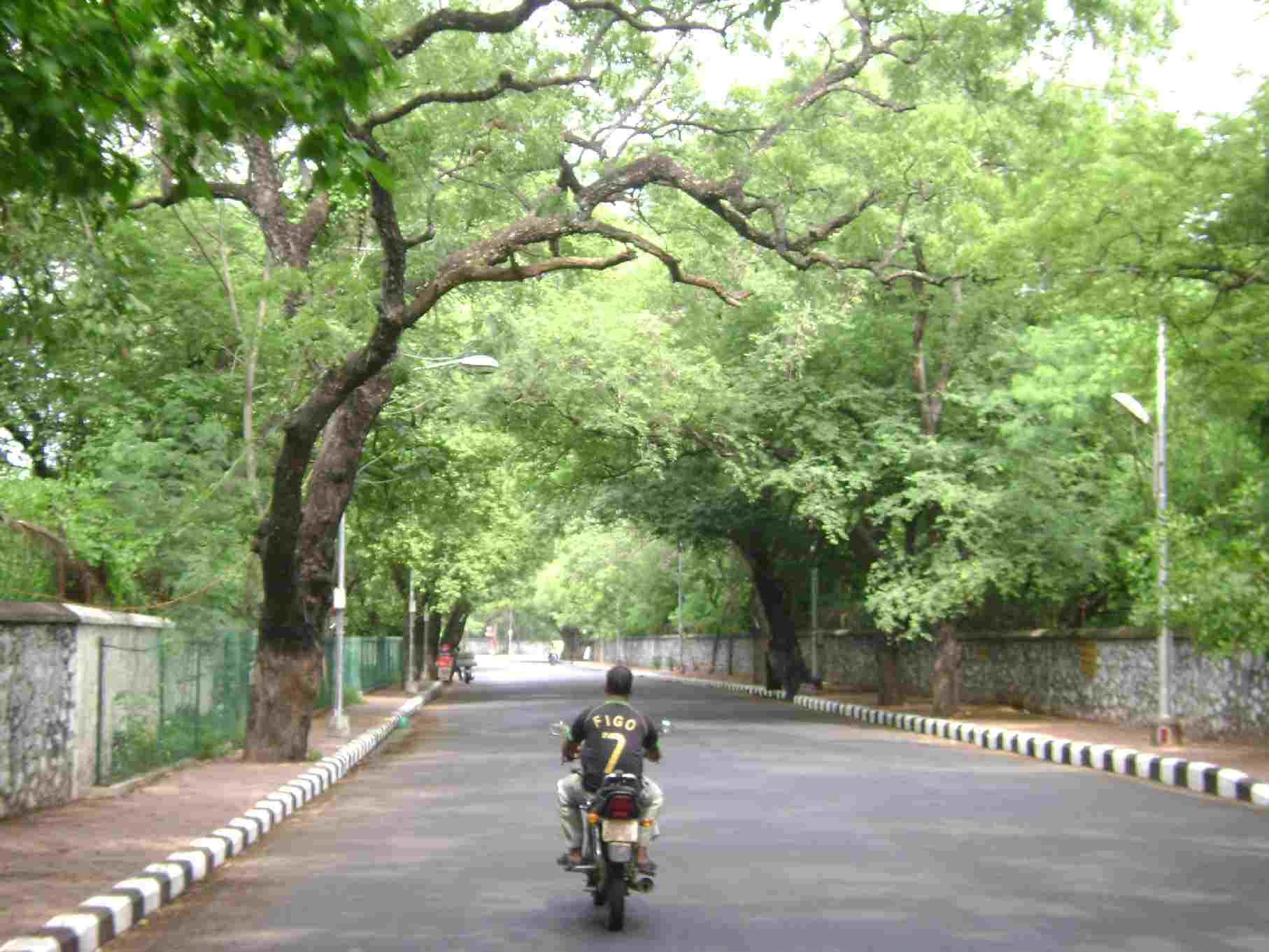 Road near Theosophical Society, Besant Nagar